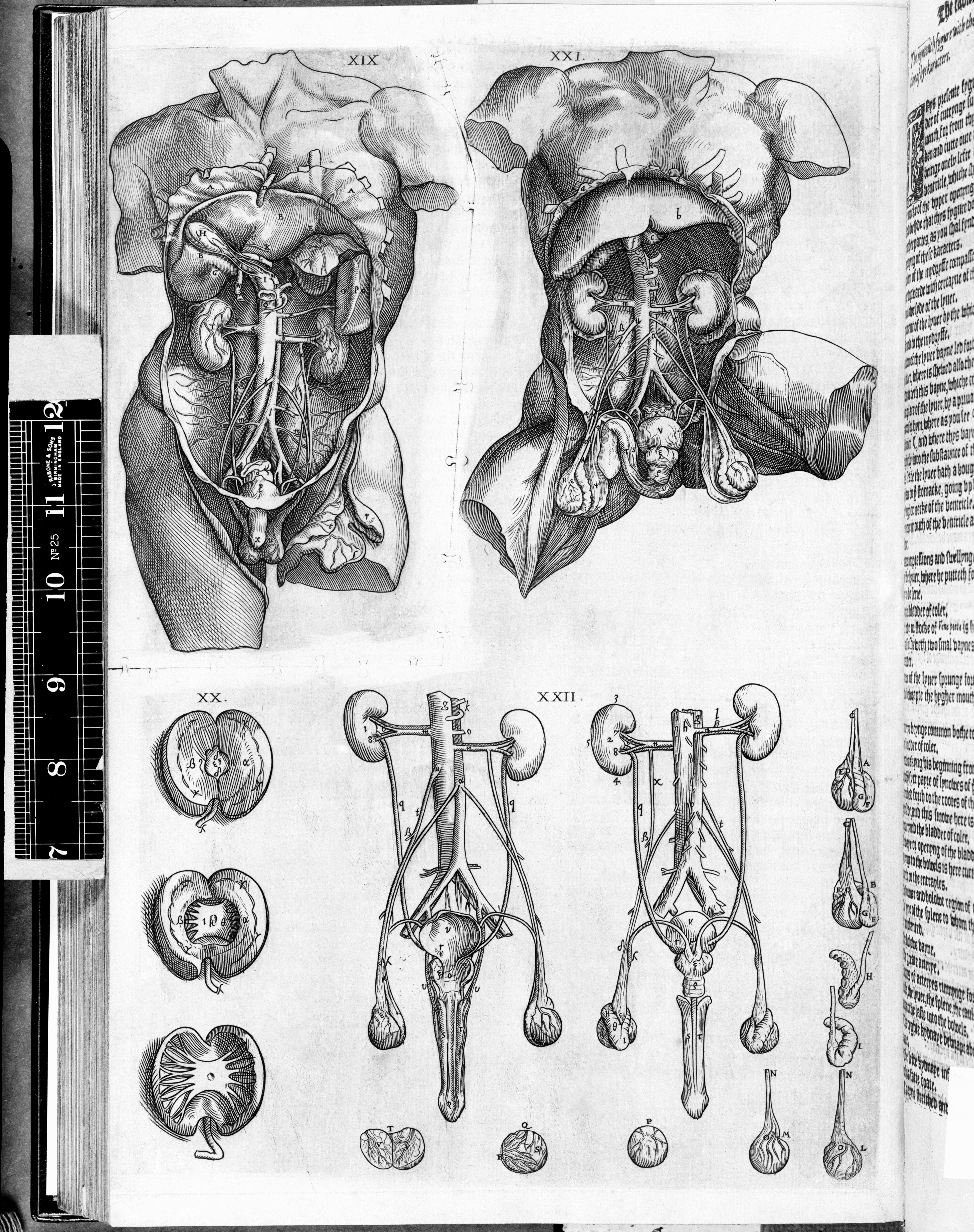 Digestive organs. Rare Books Keywords: Anatomy; Thomas Geminus; Thomas Geminus